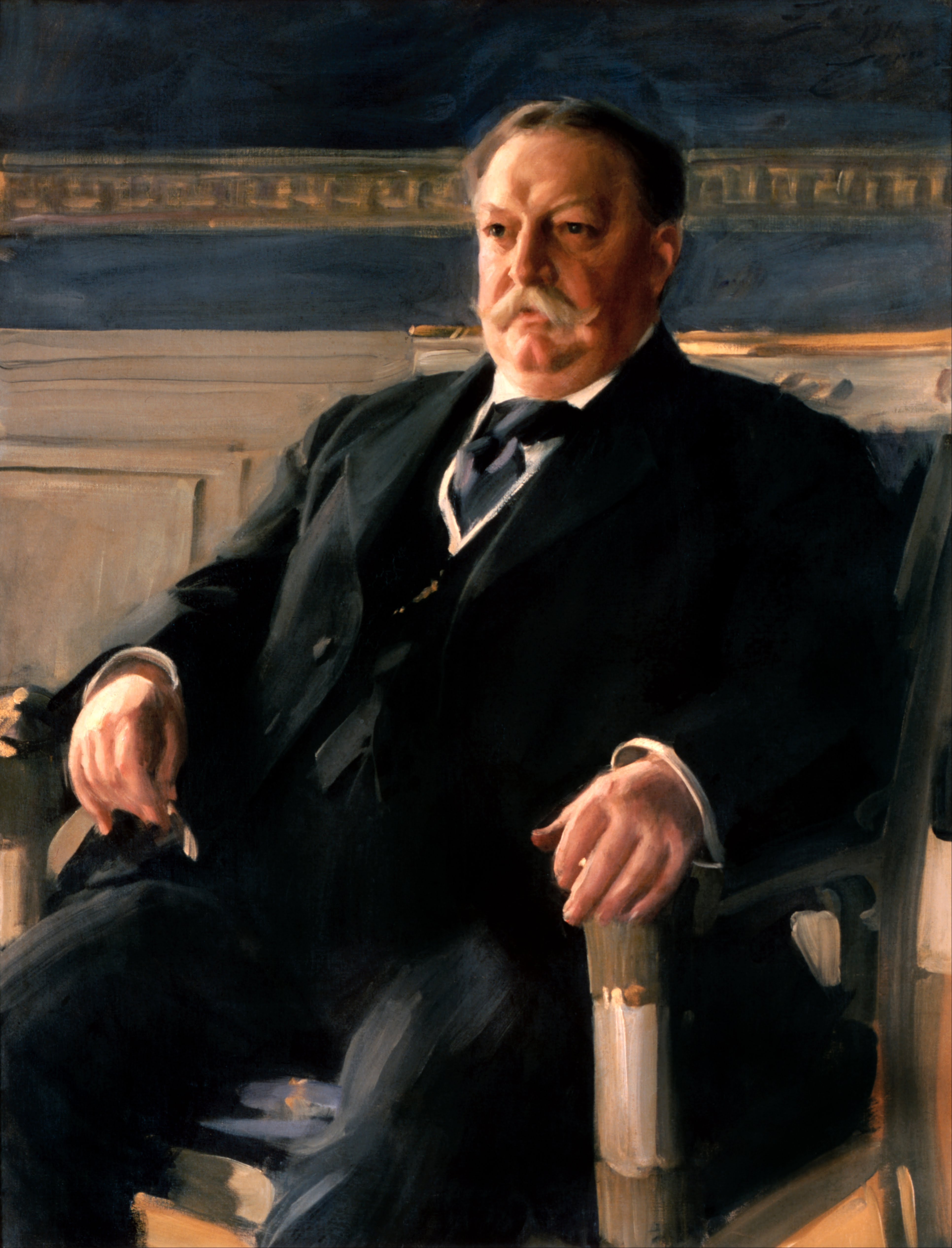 Official White House portrait of William Howard Taft